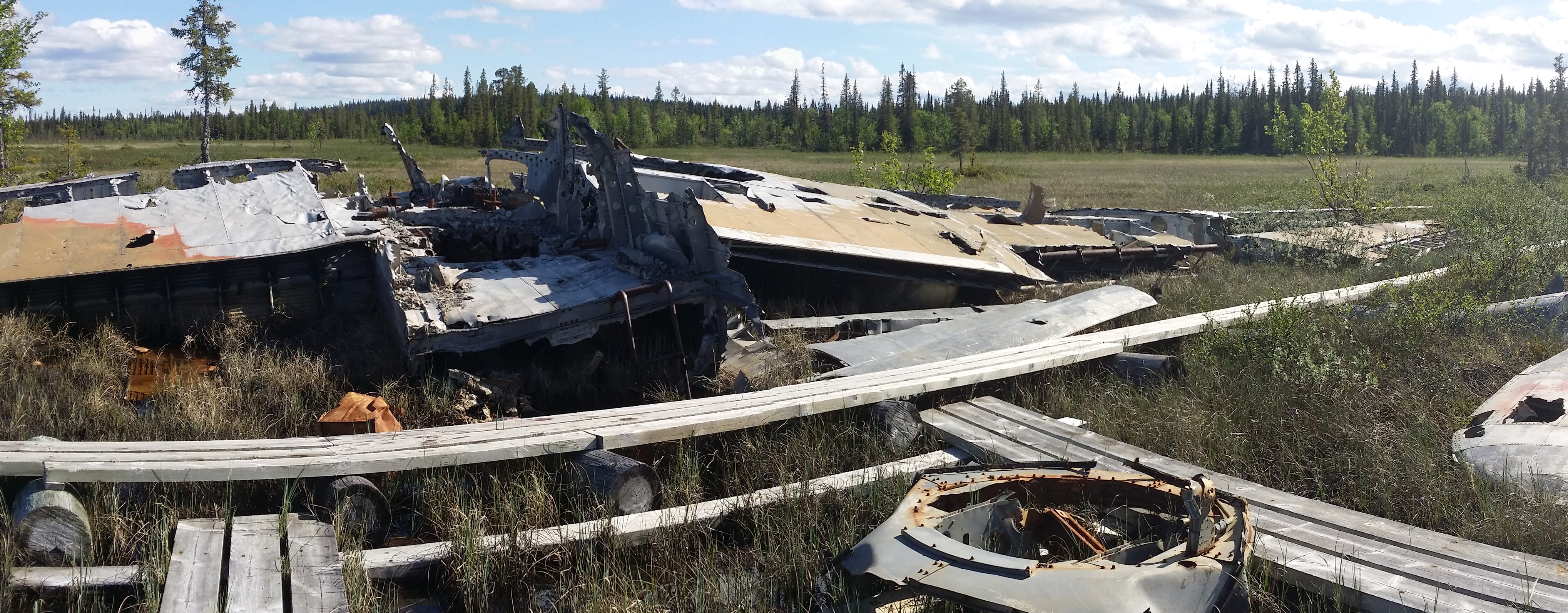 Lancaster Bomber "Easy Elsie" outside of Porjus.